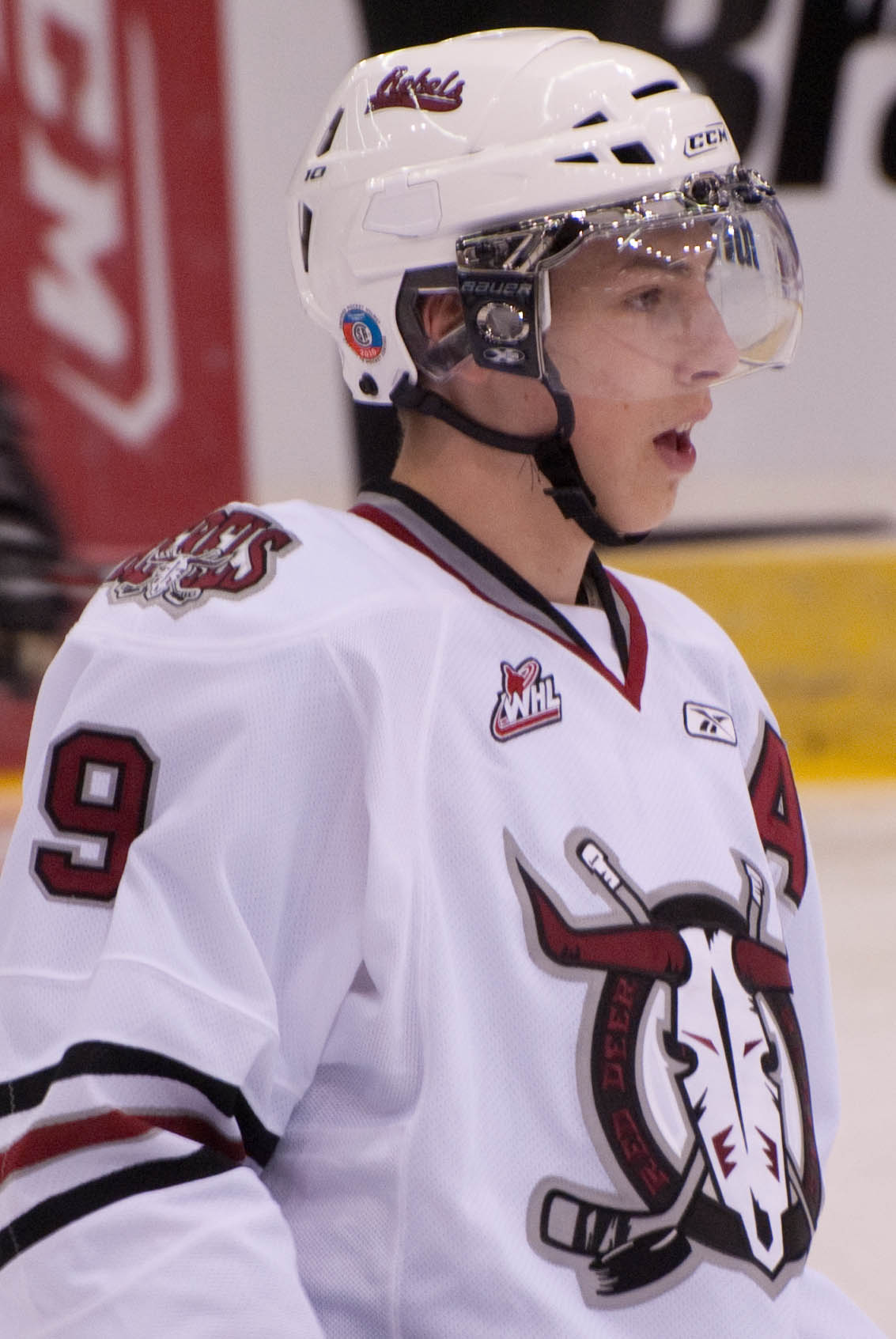 Ryan Nugent-Hopkins of the Red Deer Rebels.